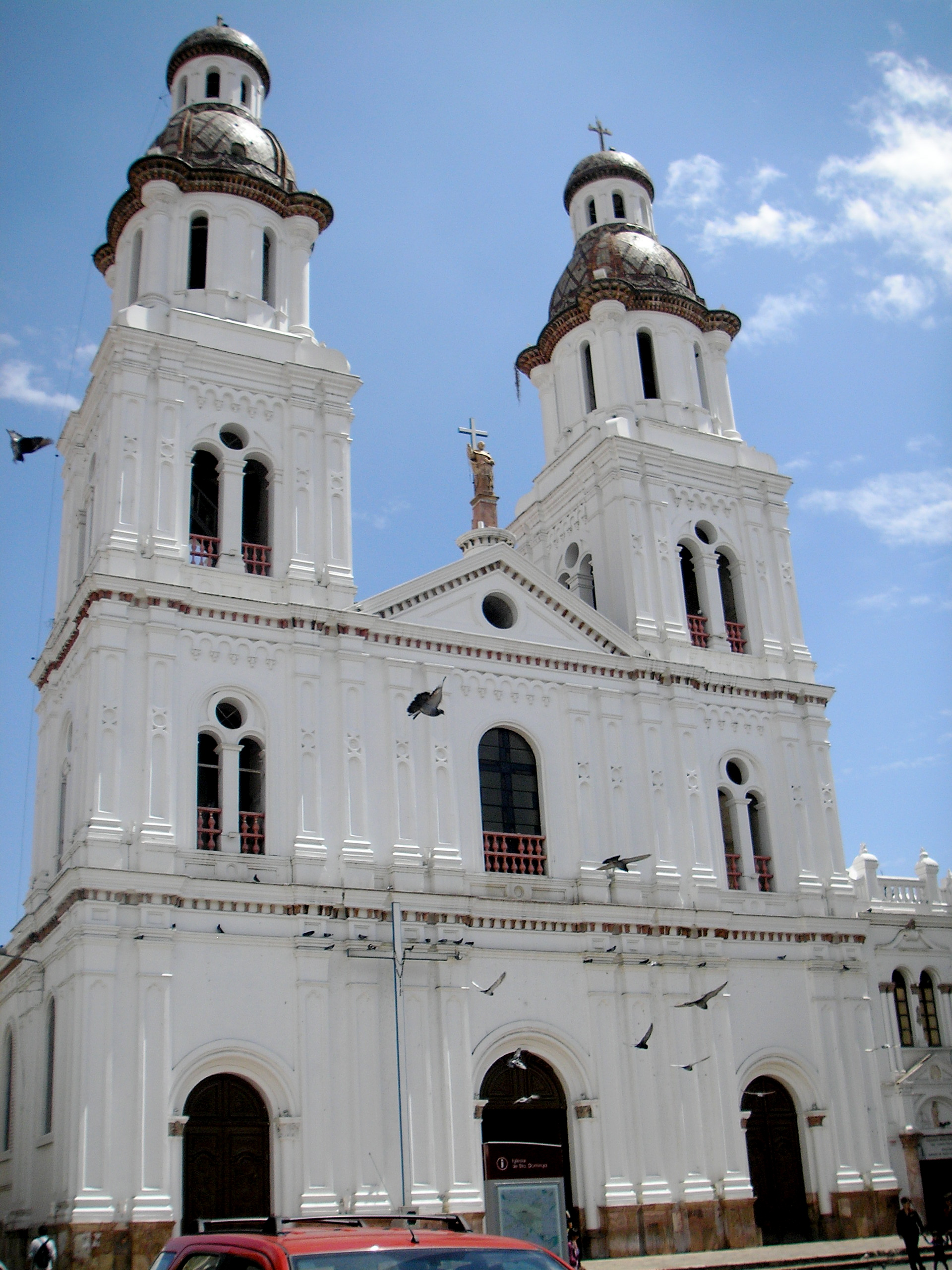 Santo Domingo's church in Cuenca, Ecuador.